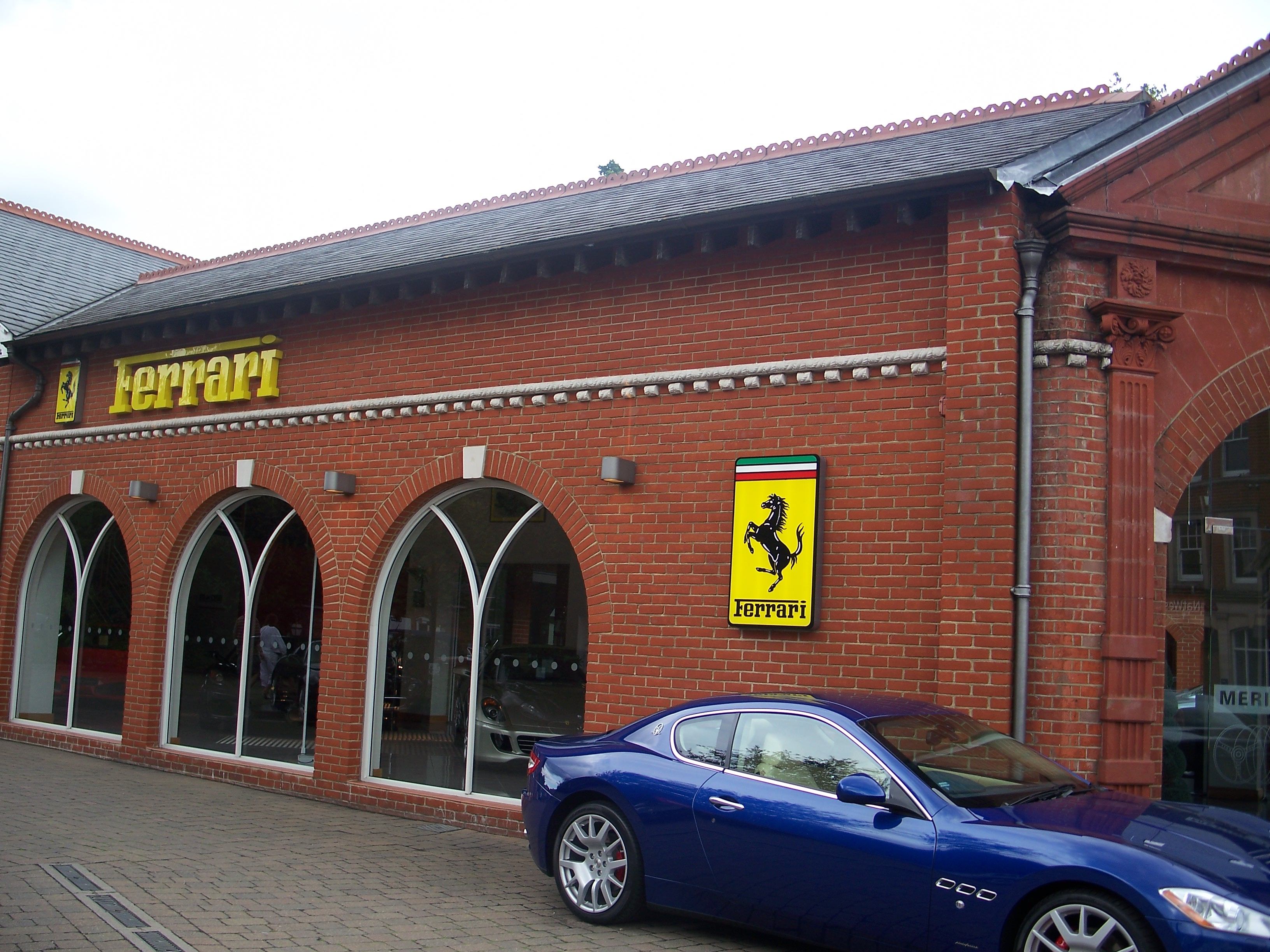 Dealership in new forest